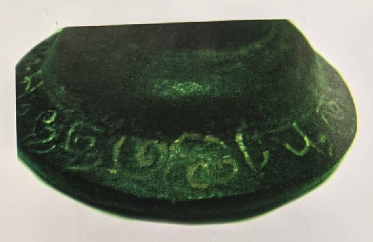 Nanadesi bronze seal, 12th century AD